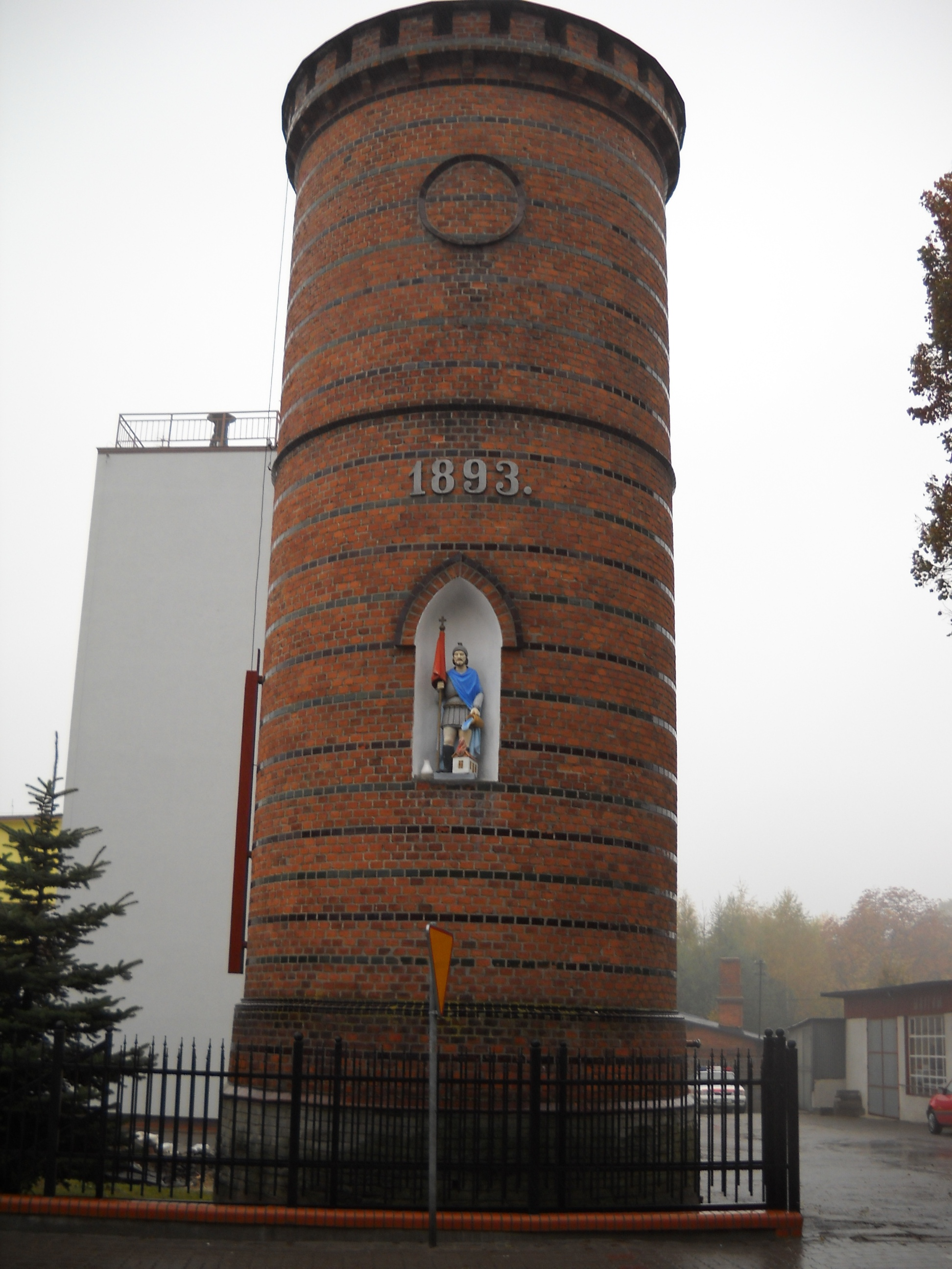 Water tower in Łasin (Kuyavian-Pomeranian Voivodeship, Poland).